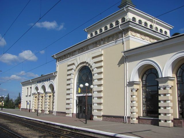 Rly station Kovel, Ukraine